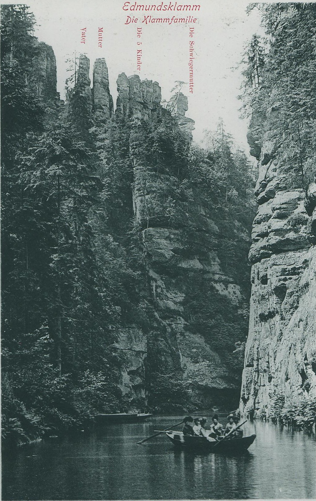 Edmundova soutěska (after 1945 Tichá soutěska) v Českém Švýcarsku (Germ. Edmundsklamm in Böhmischen Schweiz region) of Kamenice River